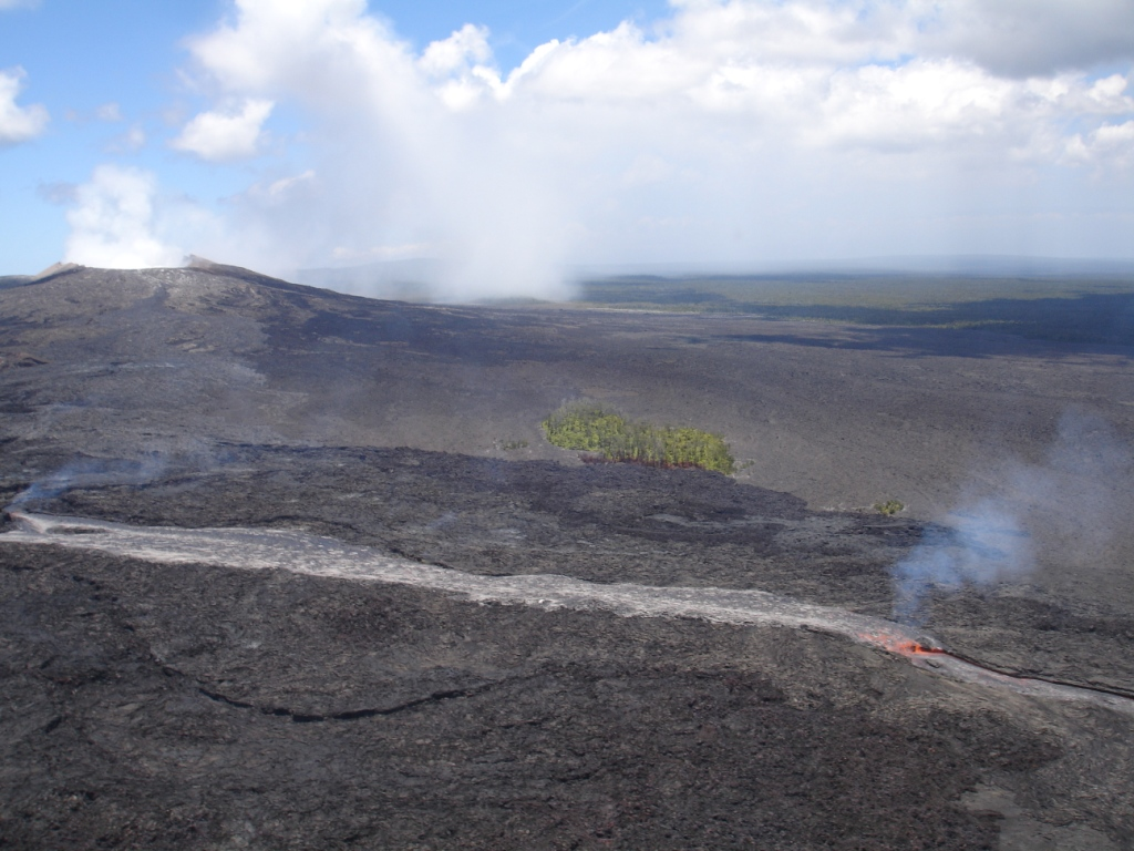 Aerial view of a lava flow out of the Pu'u 'O'o (Kilauea Volcano, Hawaii) after the collapse of the inside crater in july 2007. A lava fall is visible on the flow.